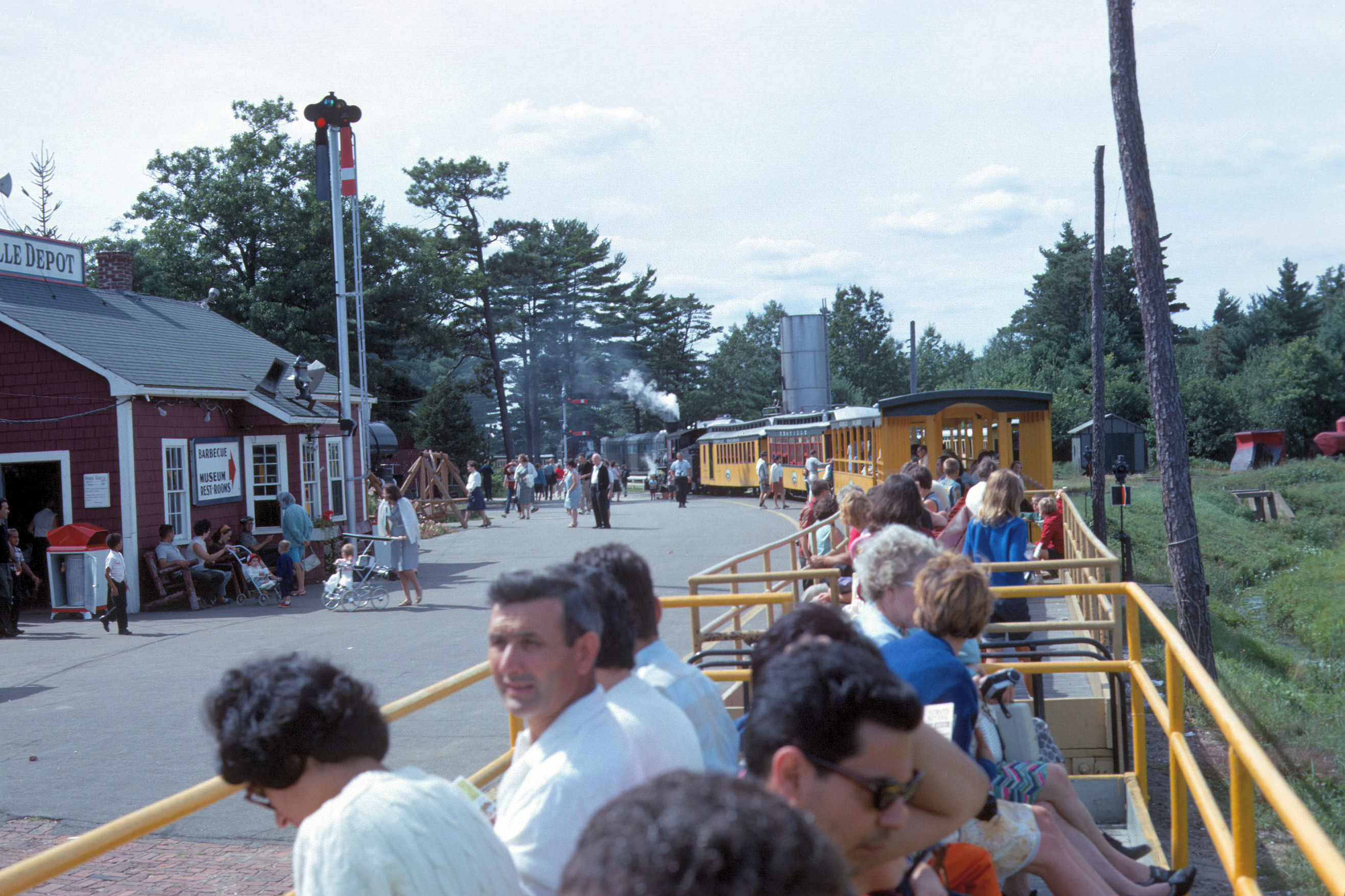 Edaville Railroad narrow-gauge train filled with visitors standing by the depot building in South Carver, Massachusetts, USA